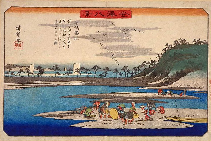 Kanazawahakkei Hirakata no rakugan